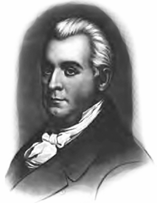 Ninian Edwards, Gov. of Illinois 1826-1830